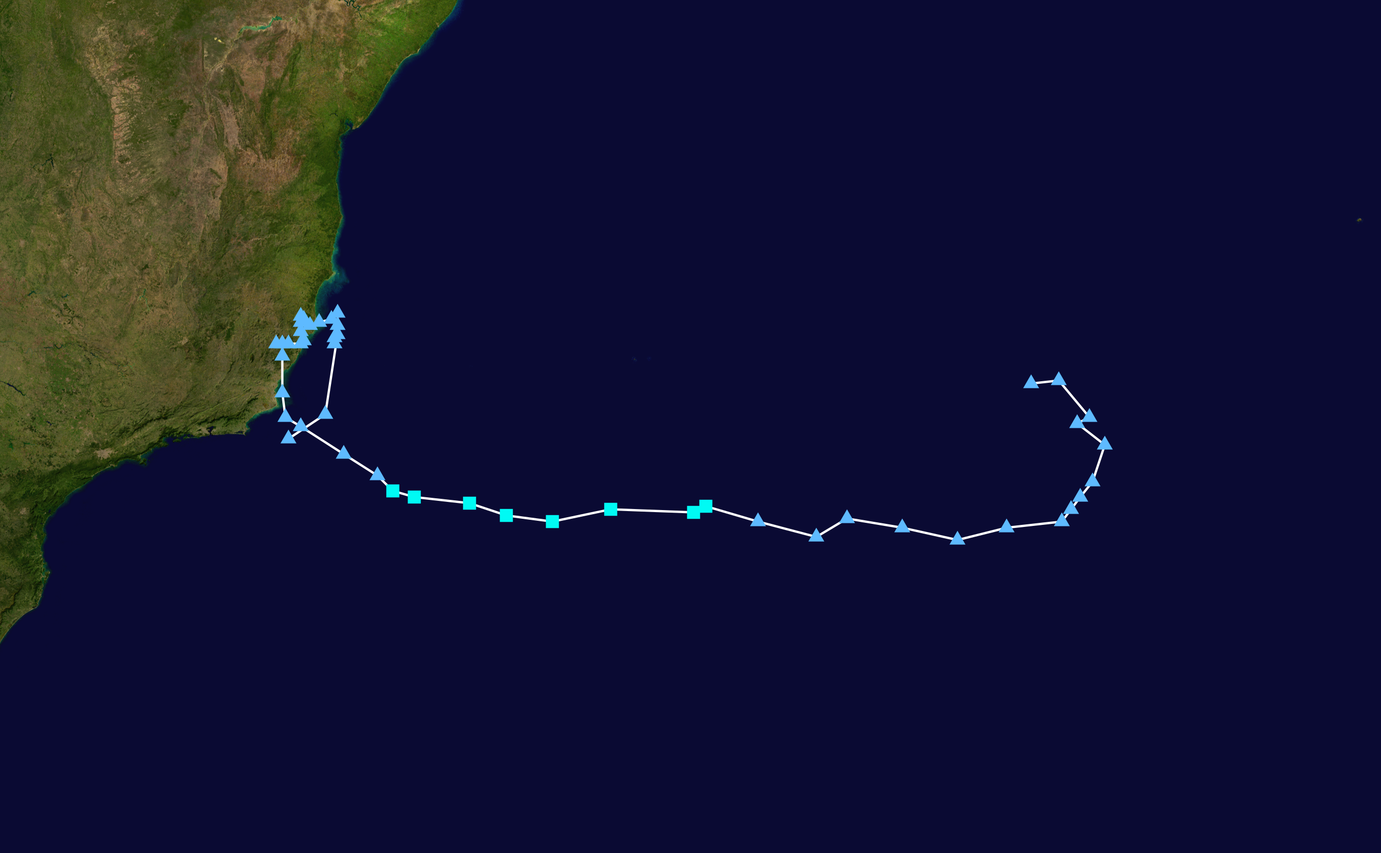 Track map of Subtropical Storm Arani of the South Atlantic tropical cyclone. The points show the location of the storm at 6-hour intervals. The colour represents the storm's maximum sustained wind speeds as classified in the Saffir–Simpson hurricane wind scale (see below), and the shape of the data points represent the nature of the storm, according to the legend below. Saffir–Simpson hurricane wind scale Tropical depression≤38 mph≤62 km/h Category 3111–129 mph178–208 km/h Tropical storm39–73 mph63–118 km/h Category 4130–156 mph209–251 km/h Category 174–95 mph119–153 km/h Category 5≥157 mph≥252 km/h Category 296–110 mph154–177 km/h Unknown Storm typeTropical cycloneSubtropical cycloneExtratropical cyclone / Remnant low / Tropical disturbance